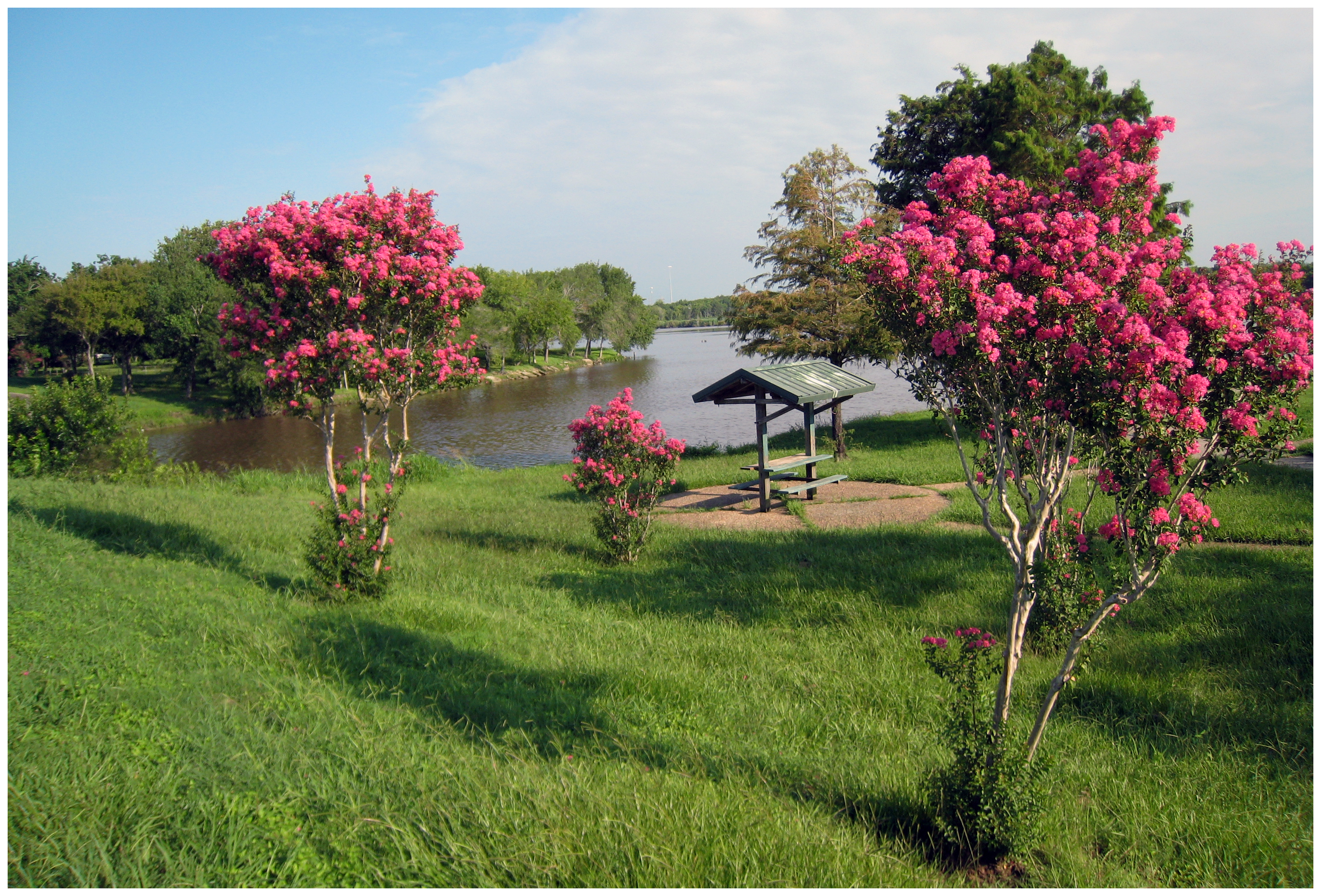 This is the Goose Creek stream located in Baytown, Texas. This portion of the trail is behind the old San Jacinto Methodist hospital and the trail is lined with crepe myrtle shrubs.